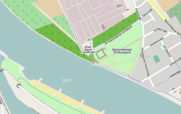 This map was created from Open Street Map project data, collected by the community. This map may be incomplete, and may contain errors. Don't rely solely on it for navigation.